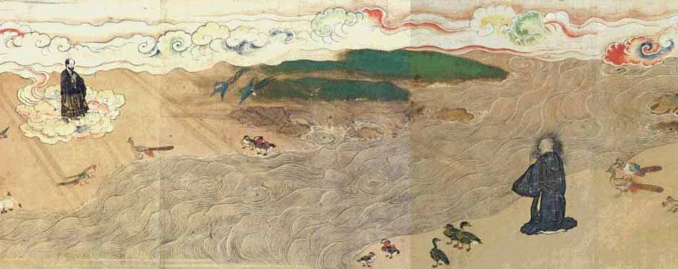 Honen shonin eden - Chion-in version - Honen dreams of Shan-tao